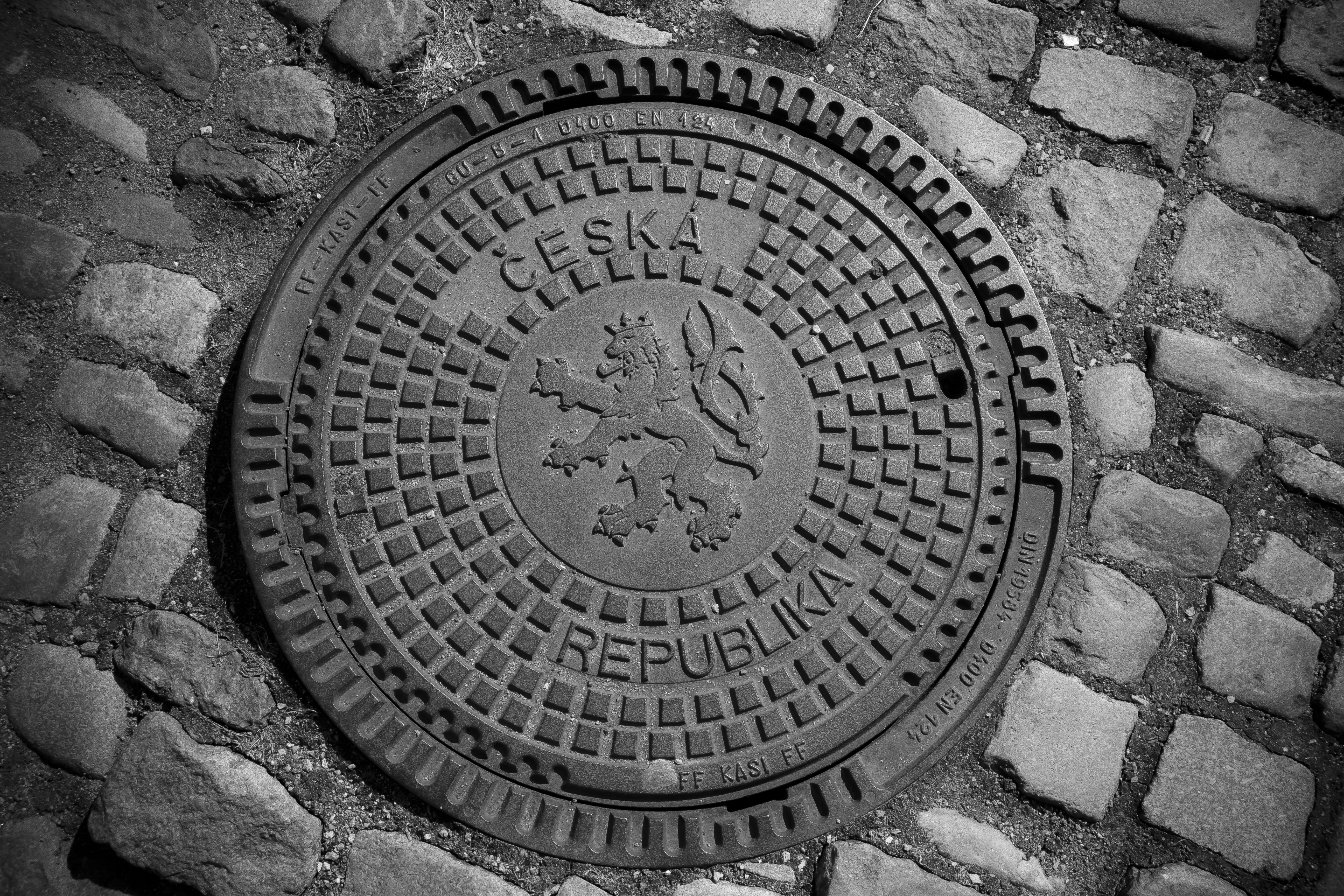 Manhole Cover